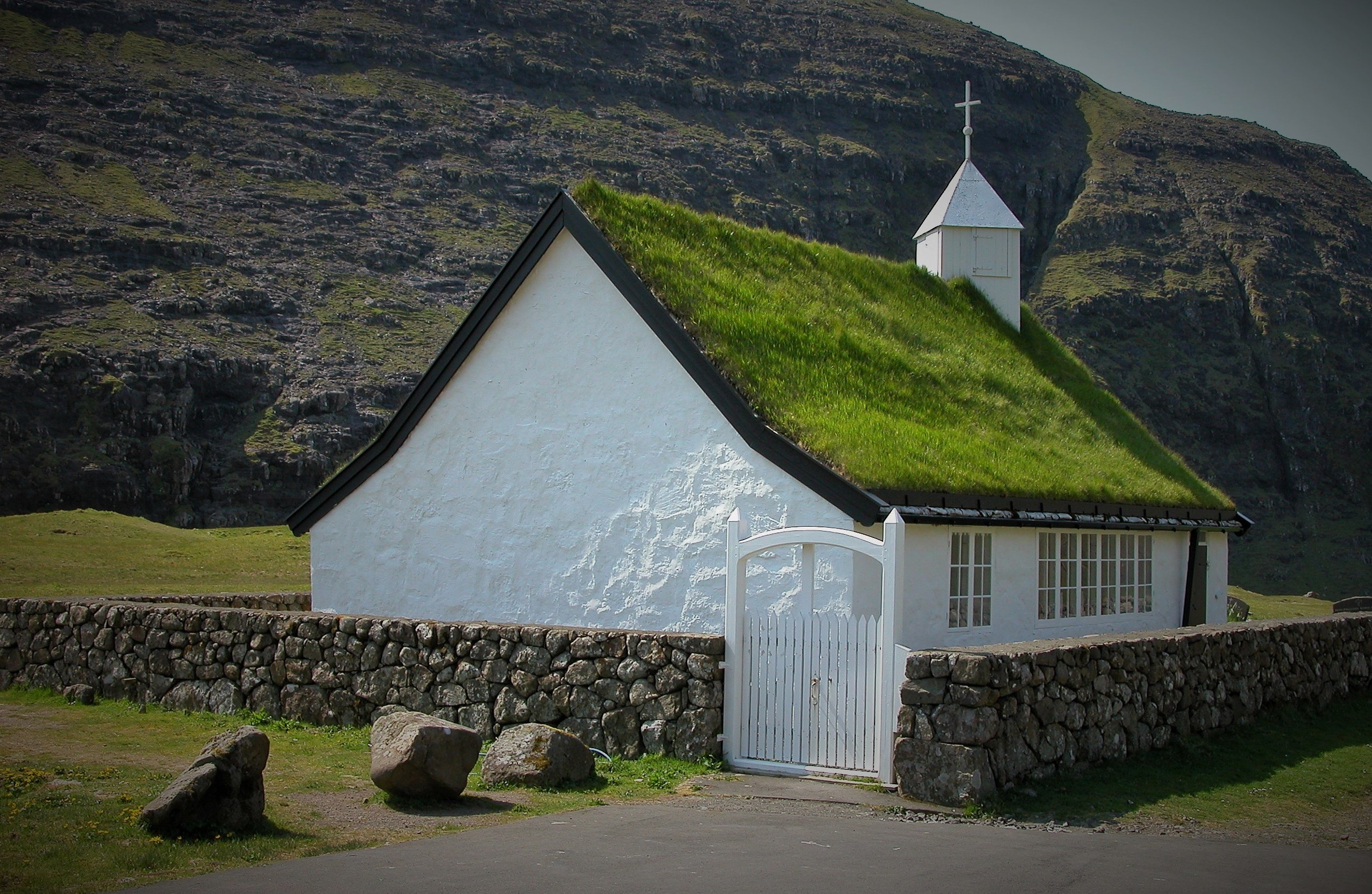 Church of Saksun, Faroe Islands